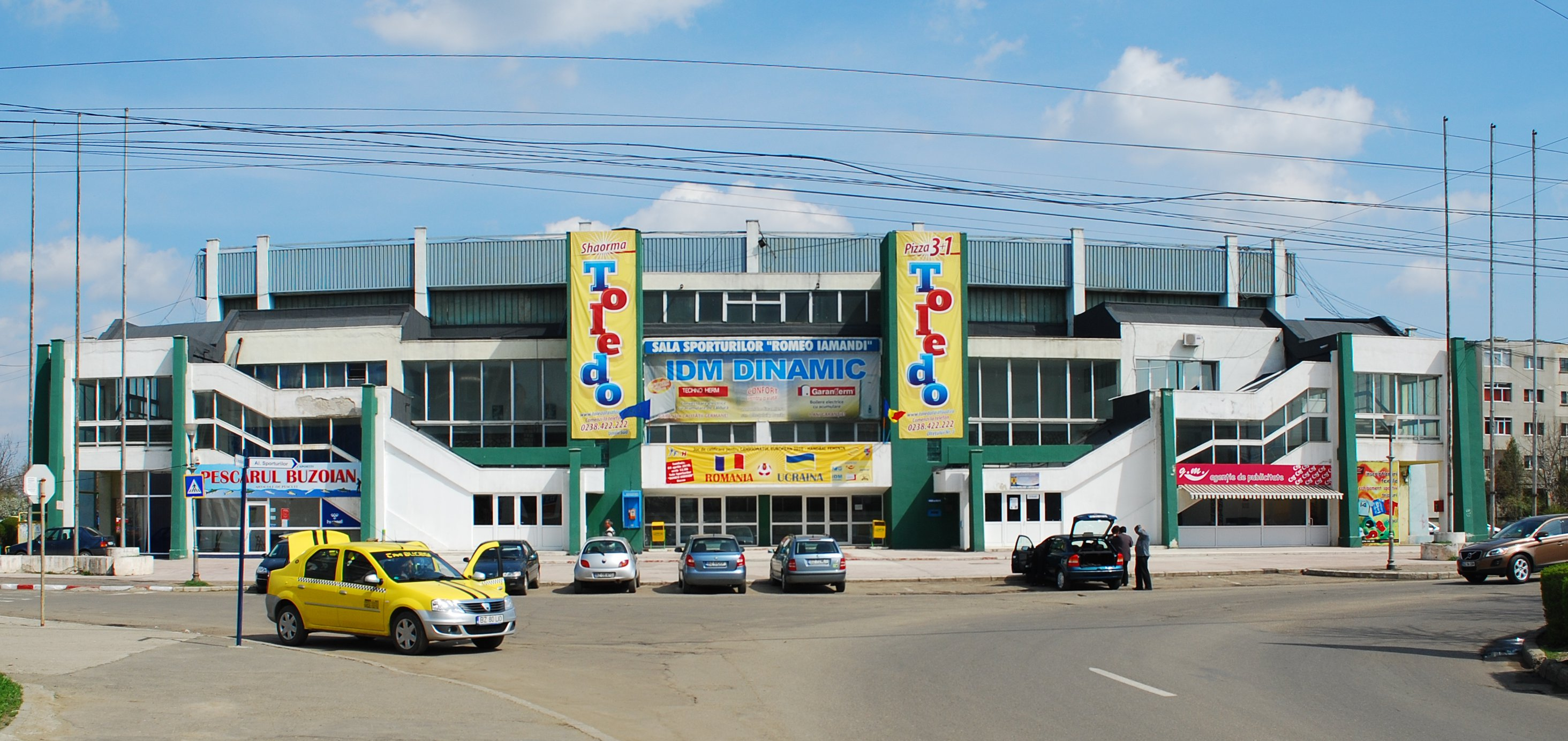 The "Romeo Iamandi" sports hall in Buzău, Romania